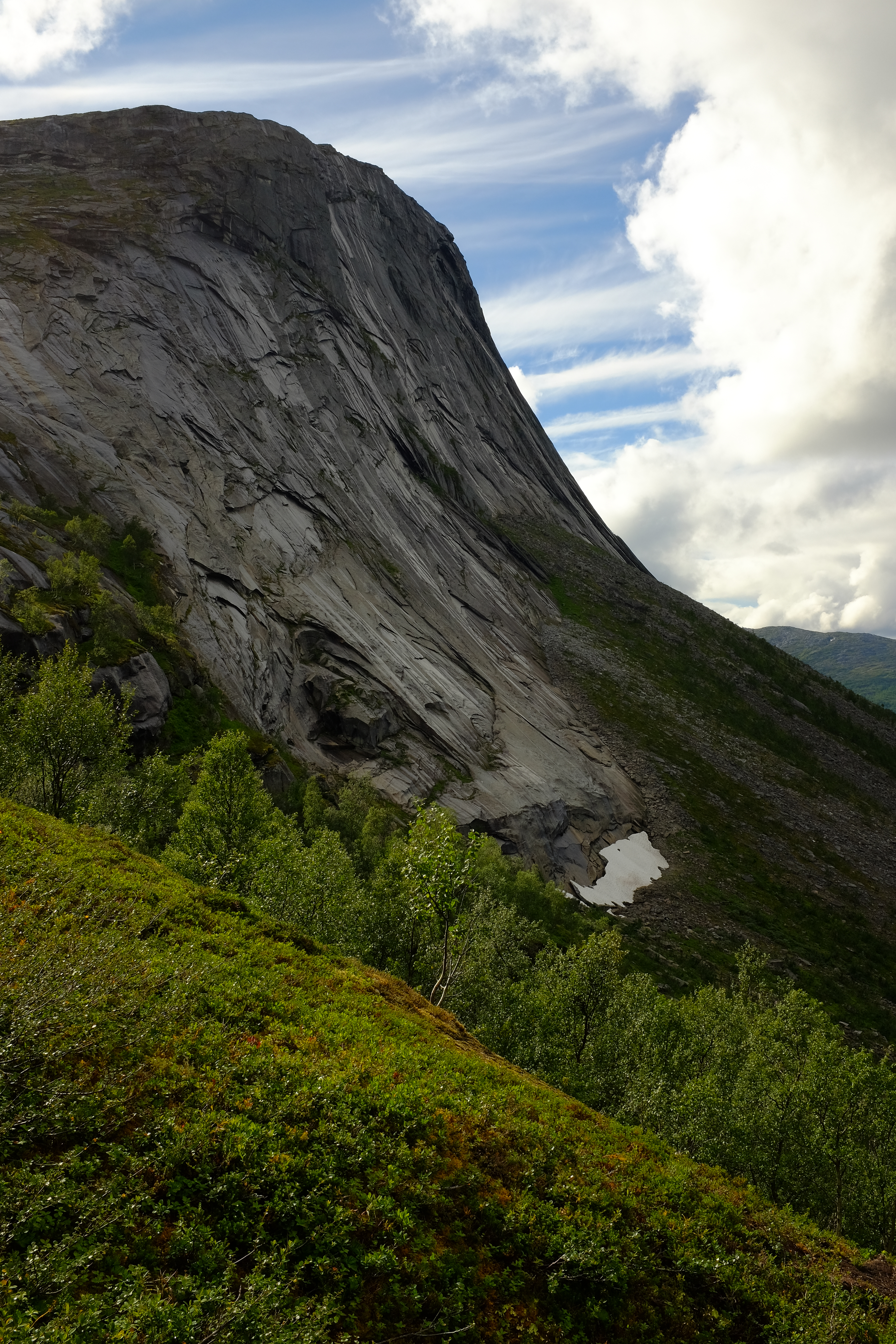 Kråkmo summit (Lule Sami: Skilggátjåhkkå) is a characteristic mountain by Kråkmo farm in the complete south in Hamarøy municipality in Nordland county, Norway.